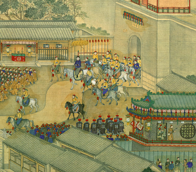 The sixt from twelve scrolls, depicting the 1751 Emperor's inspection tour of southern China.In this scroll we see the Emperor's pages in the city of Suzhou